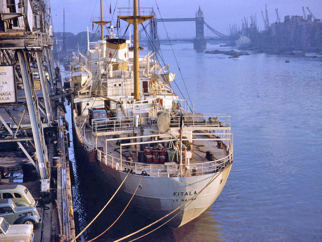 Scanned from a 35mm slide, this shows the Upper Pool from London Bridge at a time when ocean-going ships from all over the world discharged their cargoes in the heart of the City. The refrigerated cargo ship Kitala in the foreground was built in 1957 and belonged to the French shipping company Compagnie Maritime des Chargeurs Réunis.